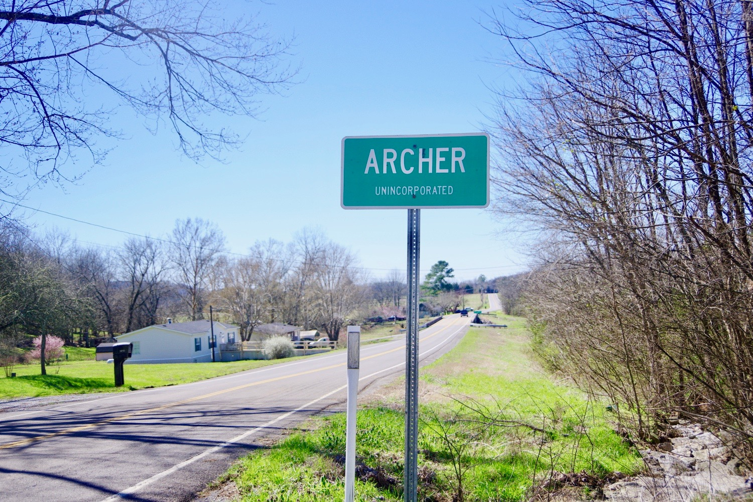 Sign at the entrance to the Archer community along State Route 272 in Marshall County, Tennessee, United States.